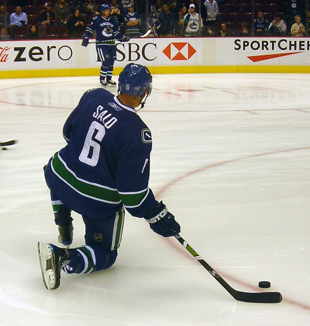 Vancouver Canucks defenceman Sami Salo during the pre-game skate against the Boston Bruins on October 28, 2008.